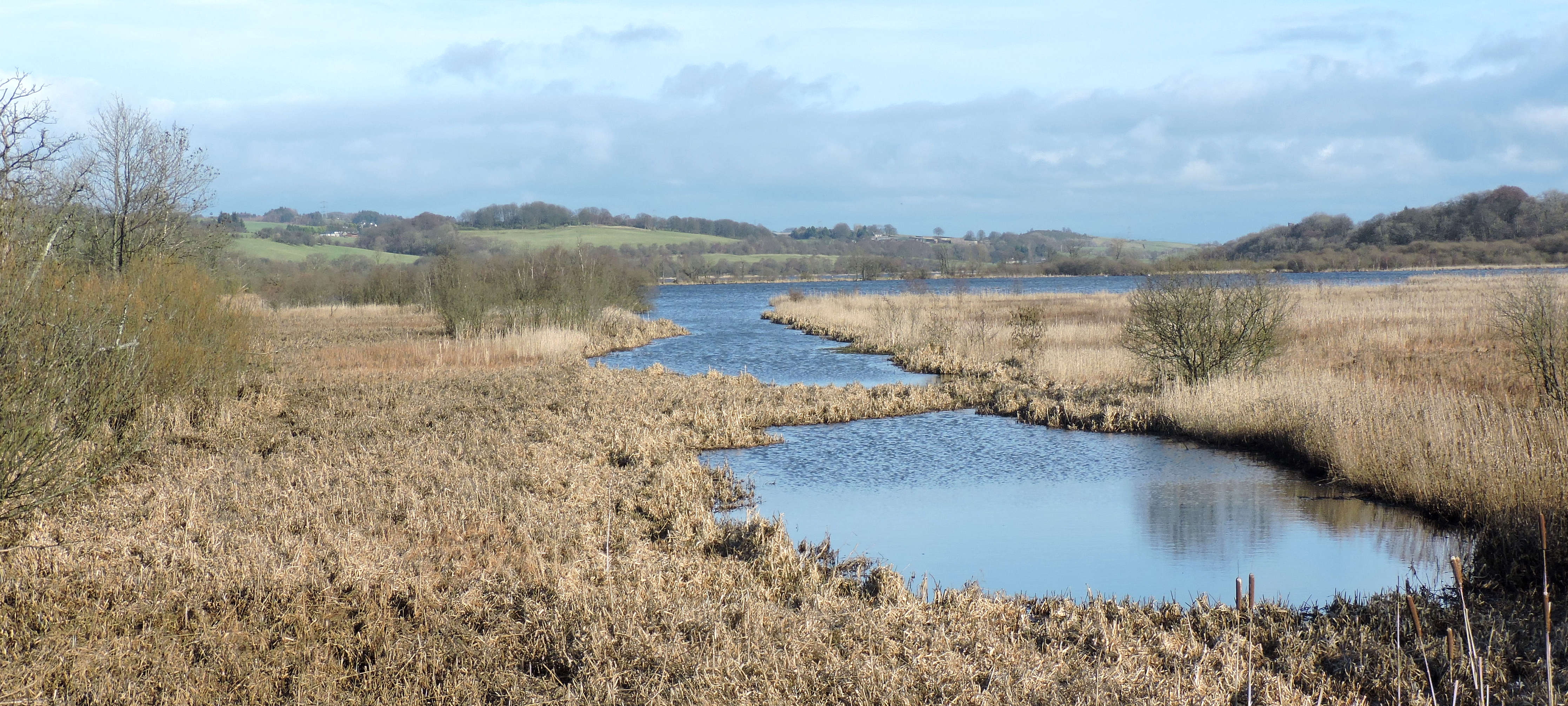 A view of the Castle Semple Loch (Renfrewshire) near the RSPB bird sanctuary